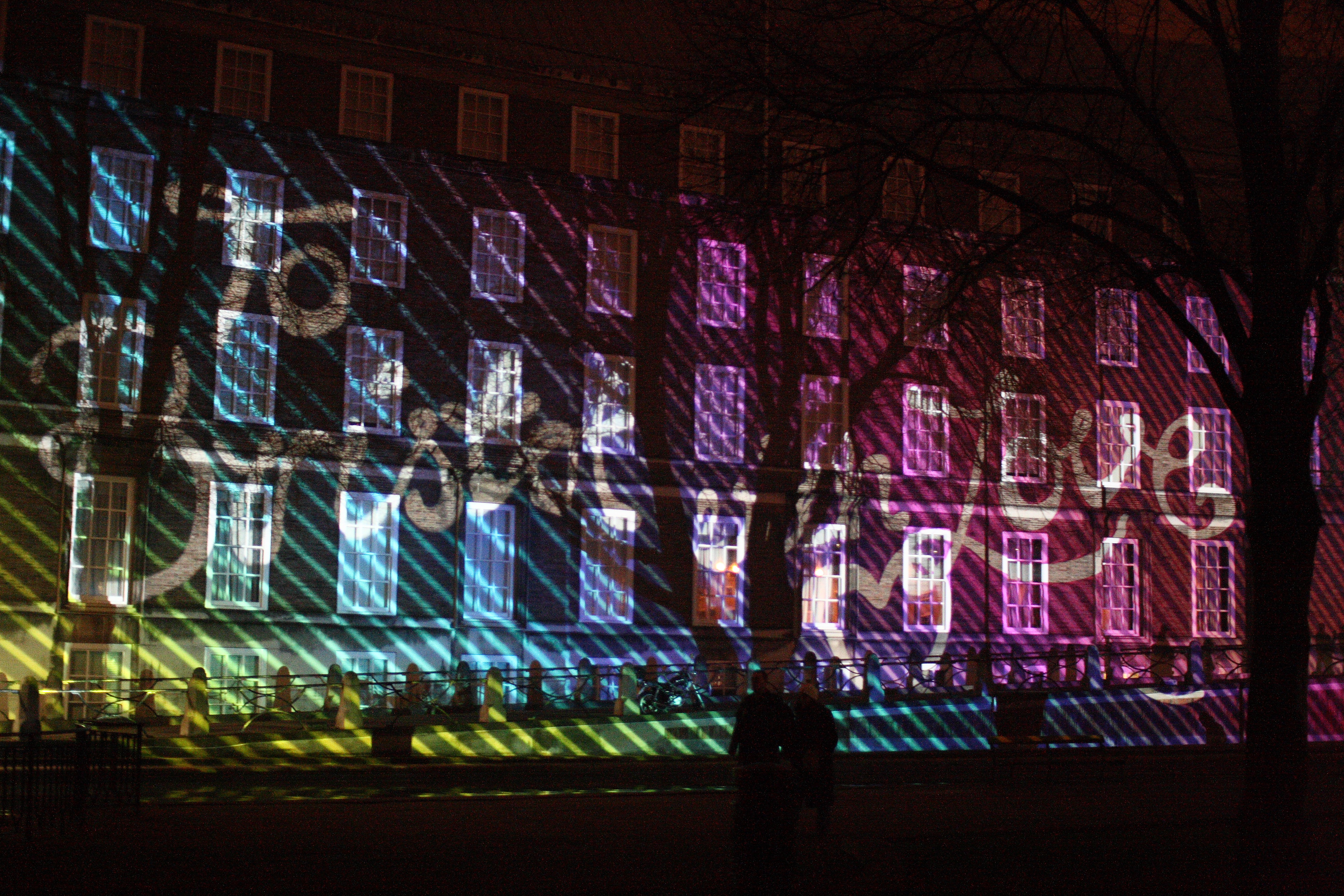 Light Up Bristol on College Green, projected onto the Council House. Bristol's very own Christmas son et lumière, Light Up Bristol, involved huge projections thrown up onto the Council House and the Cathedral. There was artificial snow, as well, but this was the last night, and they'd run out. All the pictures in this series were taken handheld at ISO 1600, mostly at f/1.4, with focus manually set to approximately infinity, because autofocus wasn't up to the job under the circumstances.